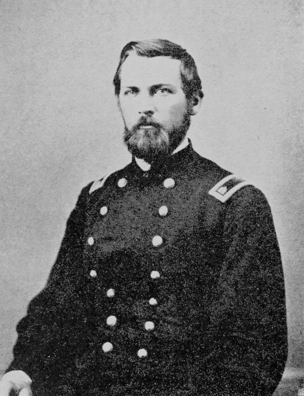 Luther M. Strong was a soldier and politician from Ohio, seen as a lt. colonel in the 49th Ohio Infantry.